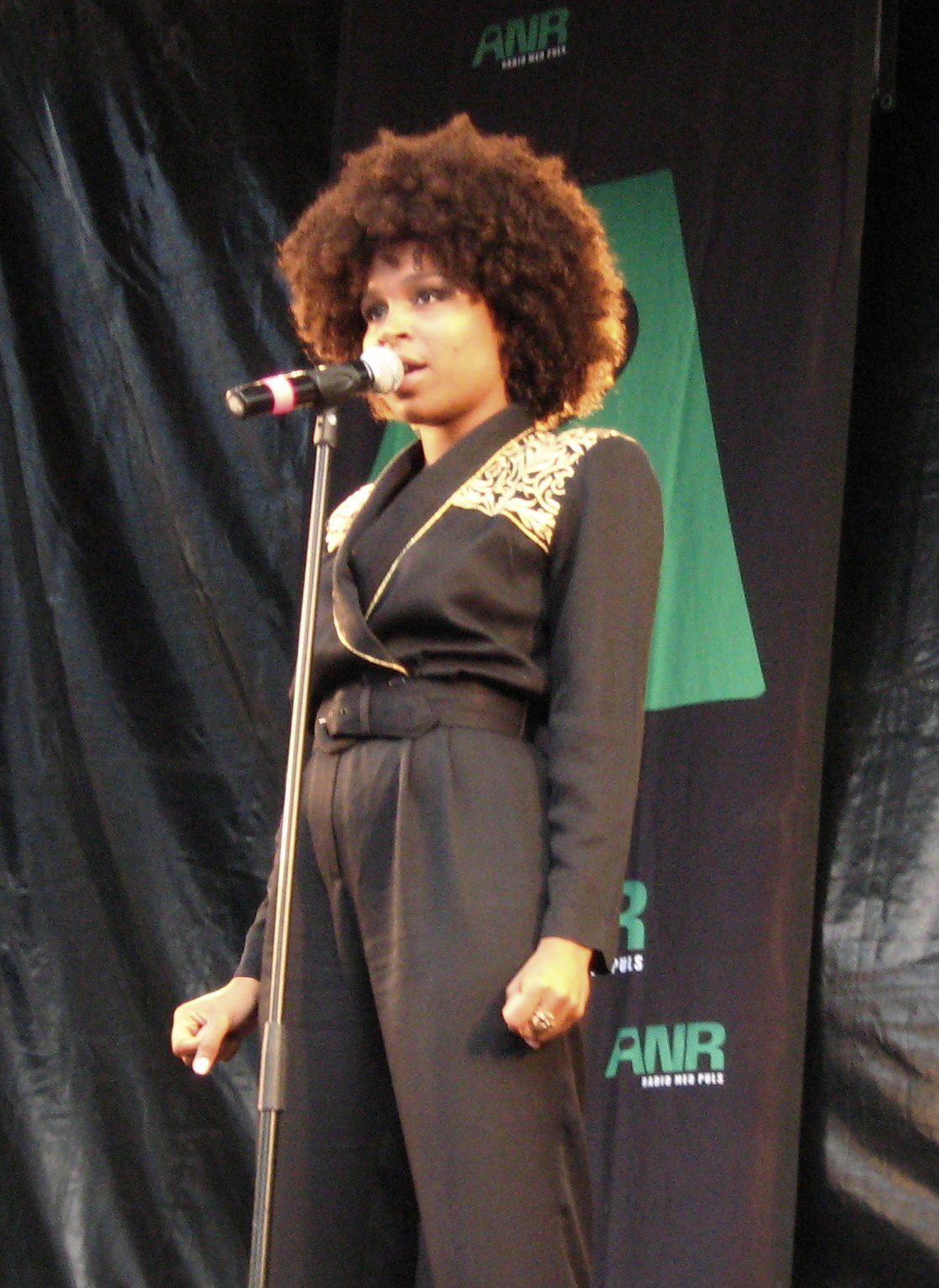 Nabiha (a Danish singer) performing in Hjørring, Denmark in September 2011